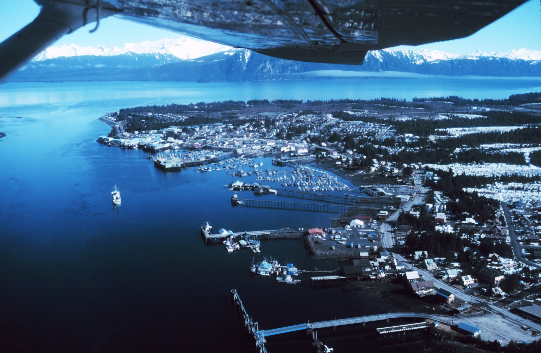 Petersburg, Alaska from the air - NOAA Ship RAINIER anchored off harbor